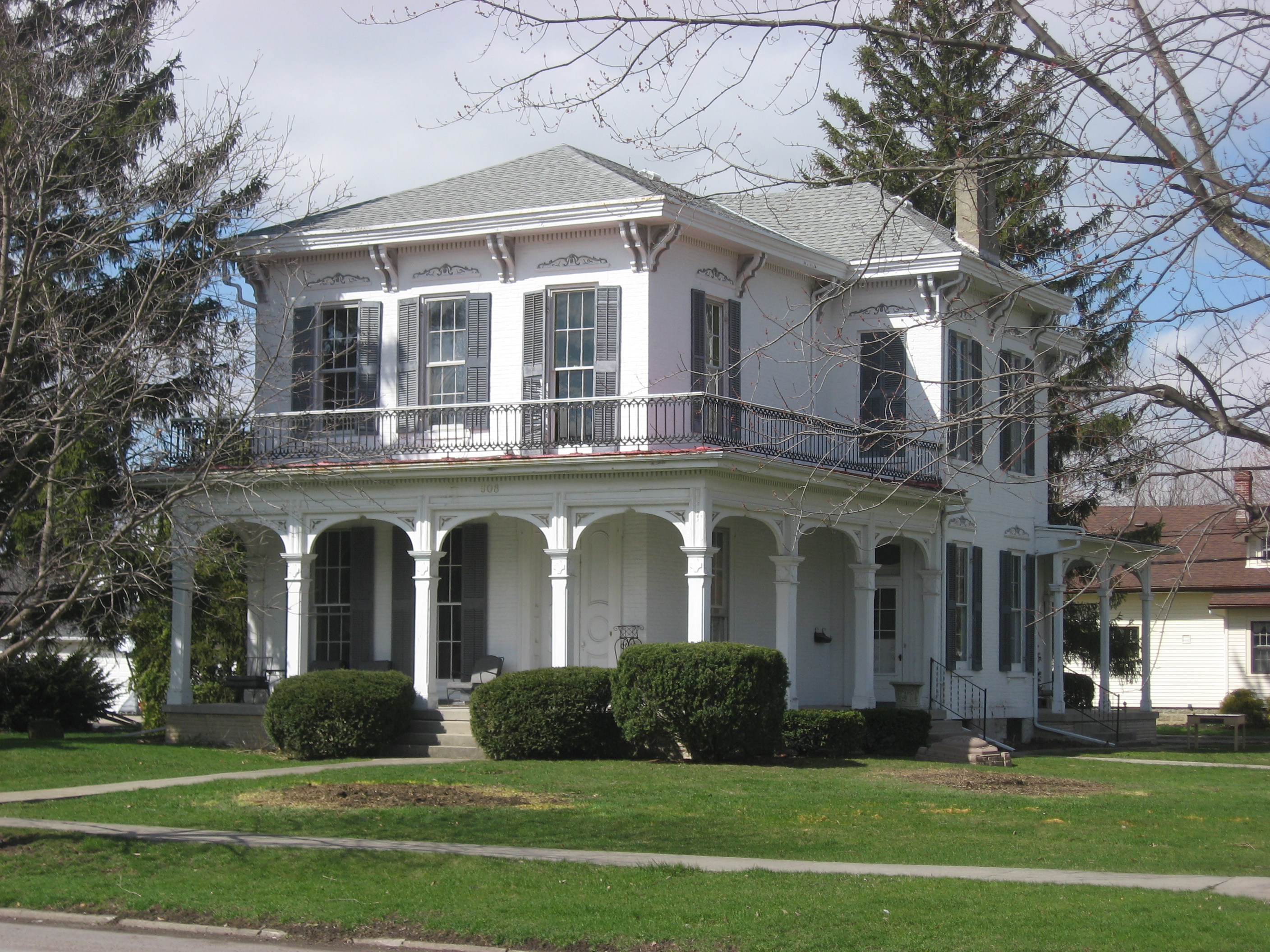 Front and eastern side of the Bredeick-Lang House, located at 508 W. Second Street on the Van Wert County side of Delphos, Ohio, United States. Built in 1859, it is listed on the National Register of Historic Places.